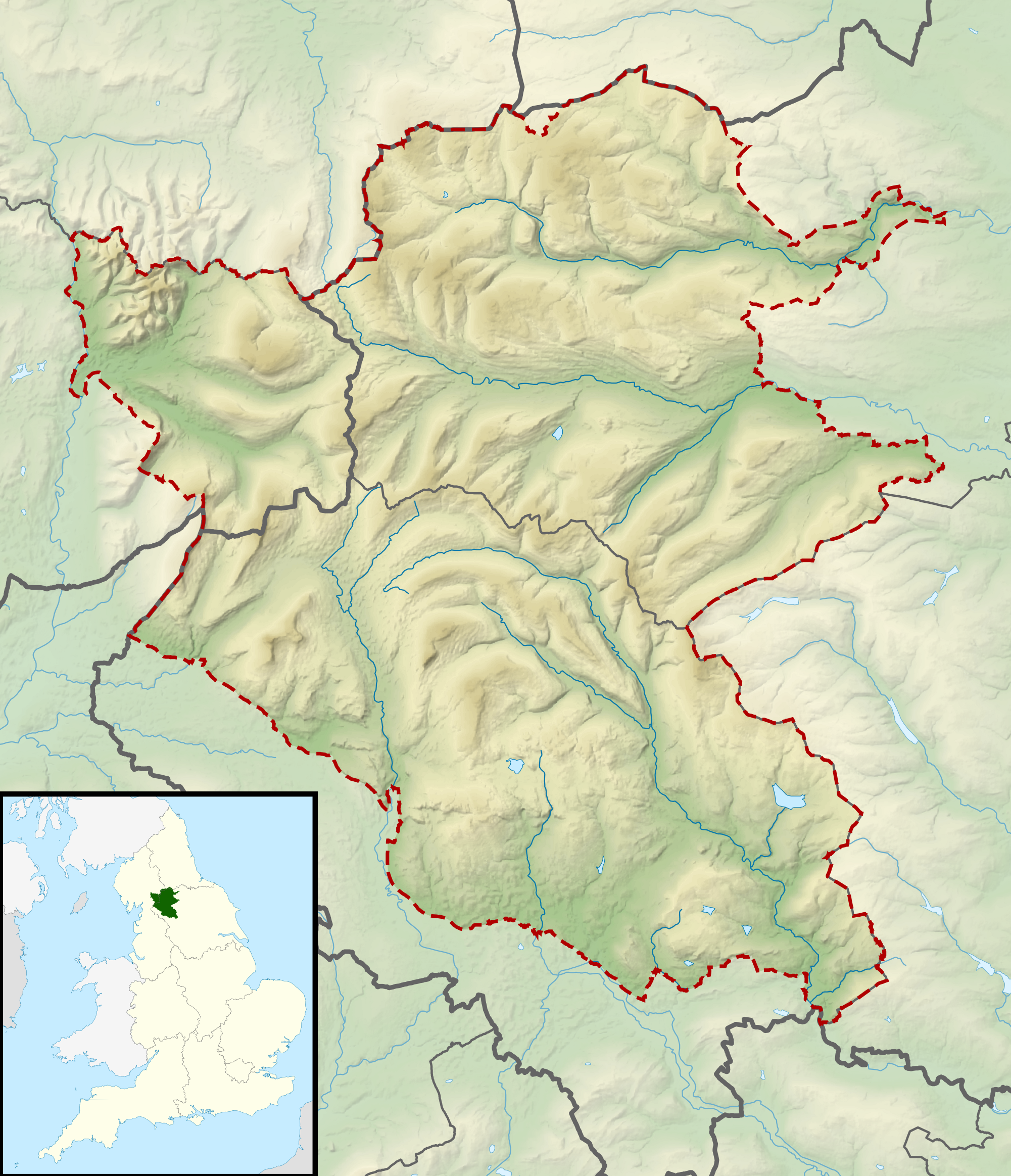 Relief map of the Yorkshire Dales National Park, UK Equirectangular map projection on WGS 84 datum, with N/S stretched 170% Geographic limits: West: 2.65W East: 1.70W North: 54.52N South: 53.87N National Park boundary County boundary Local government district boundary